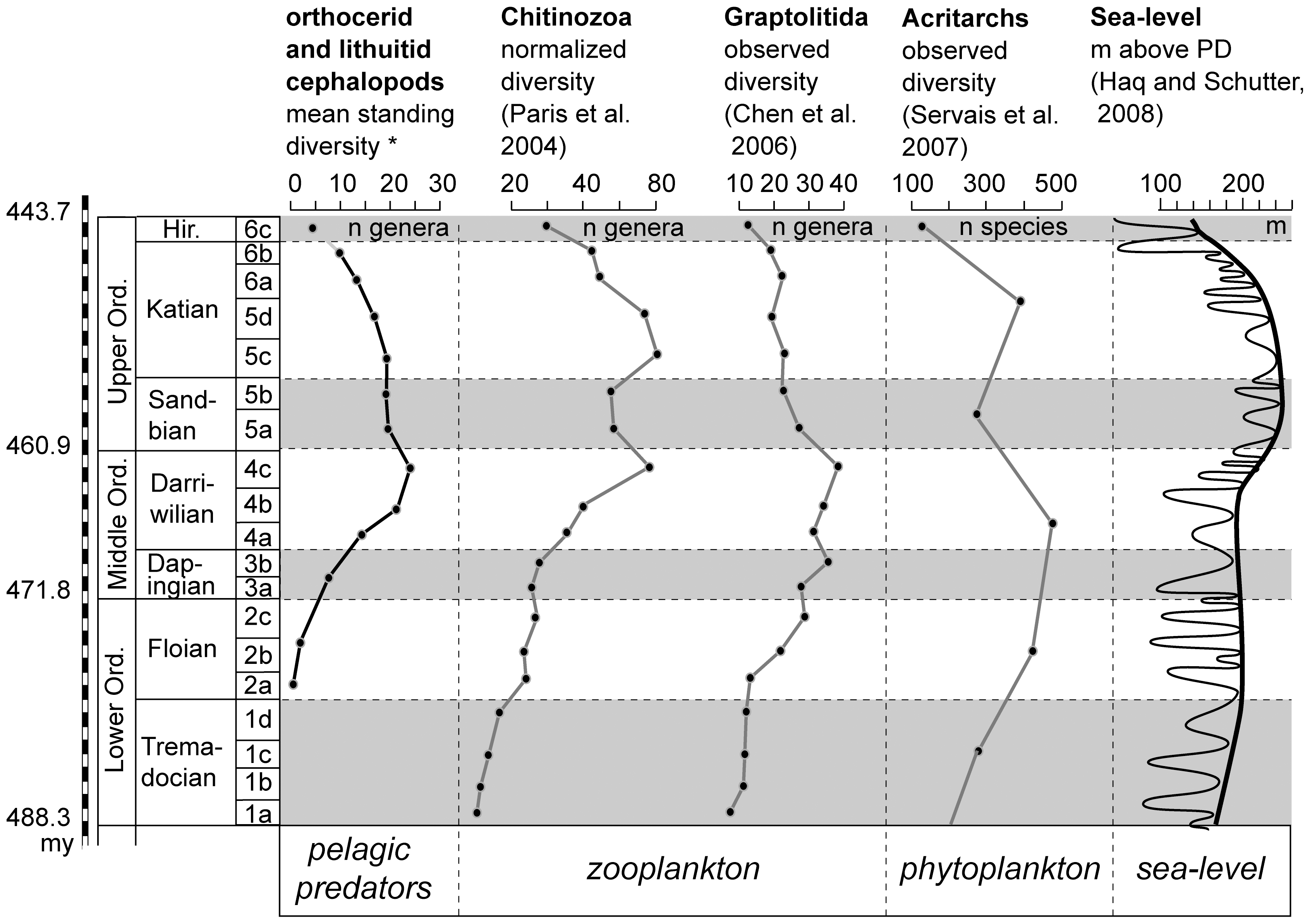 Diversity evolution of Ordovician zooplanktonic organisms compared with global eustatic sea-level curve